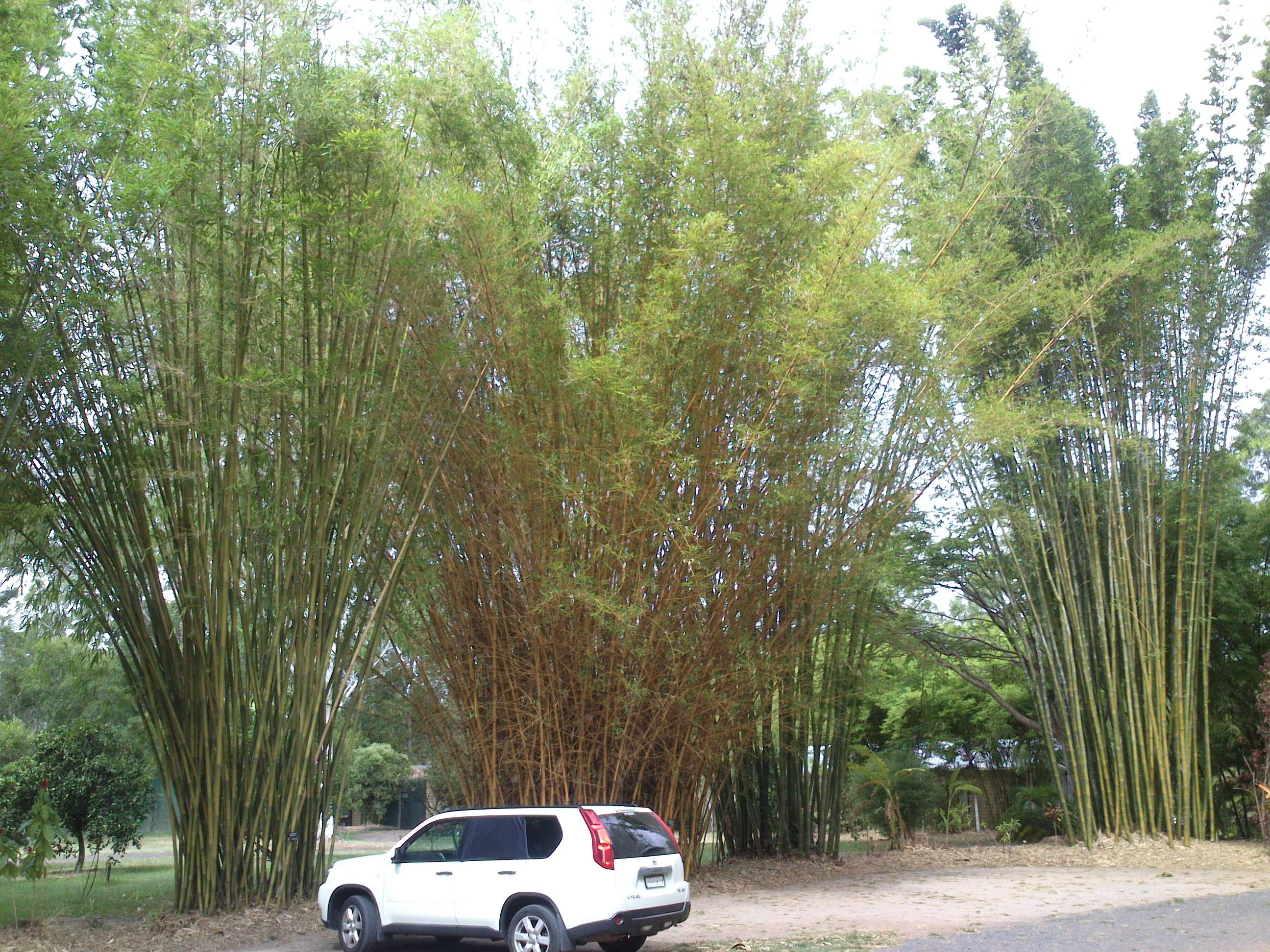 Giant bamboo in carpark